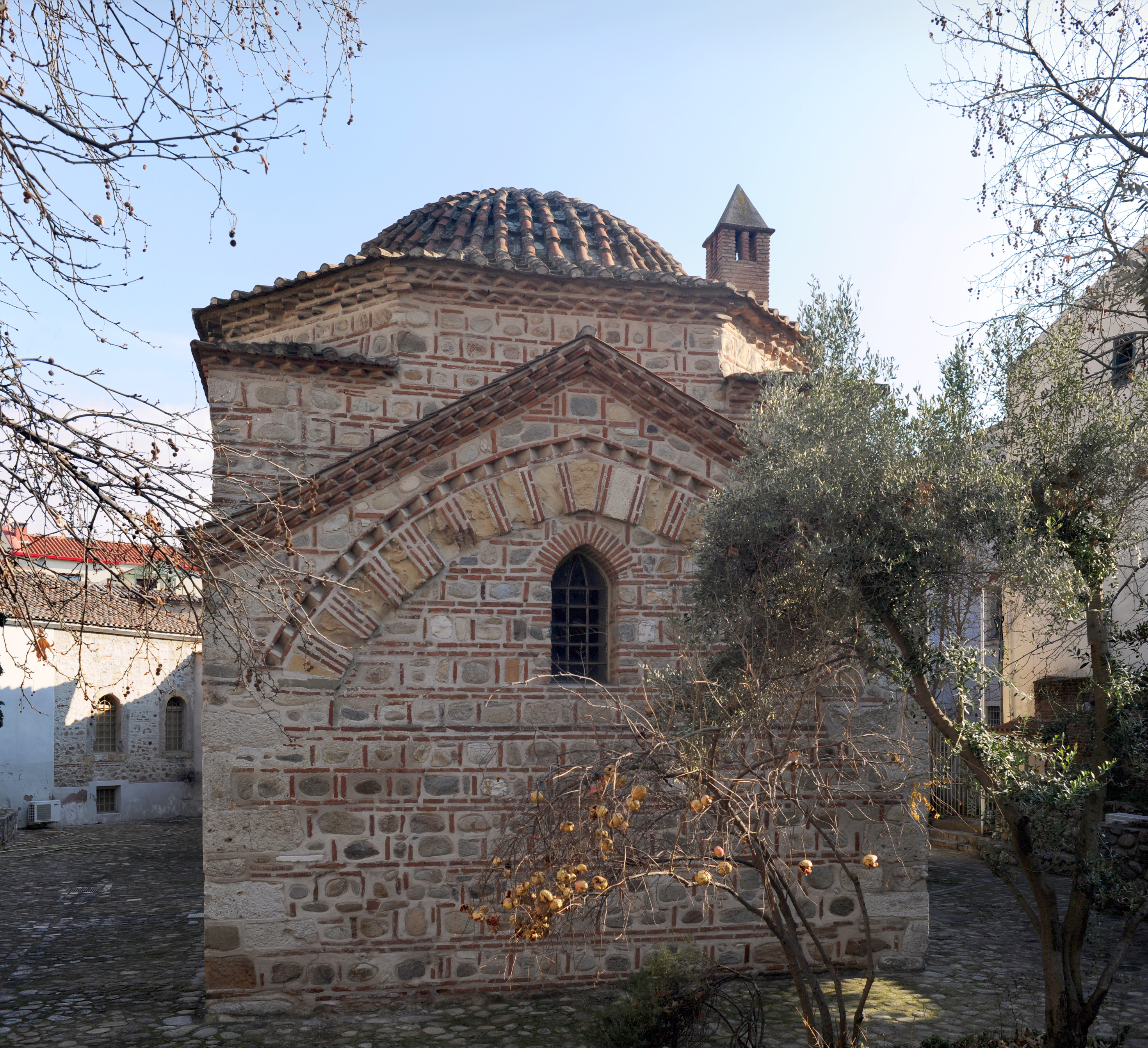 Imaret of Komotini (1360-1380) - Gazi Evrenos, Komotini, Rhodope, Western Thrace, Greece.